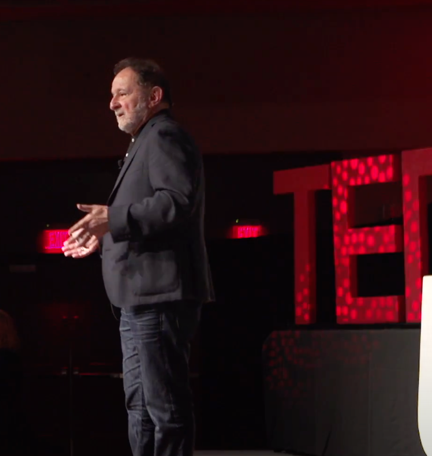 Dr. Salvatore Domenic Morgera presenting at TEDxUSF conference.